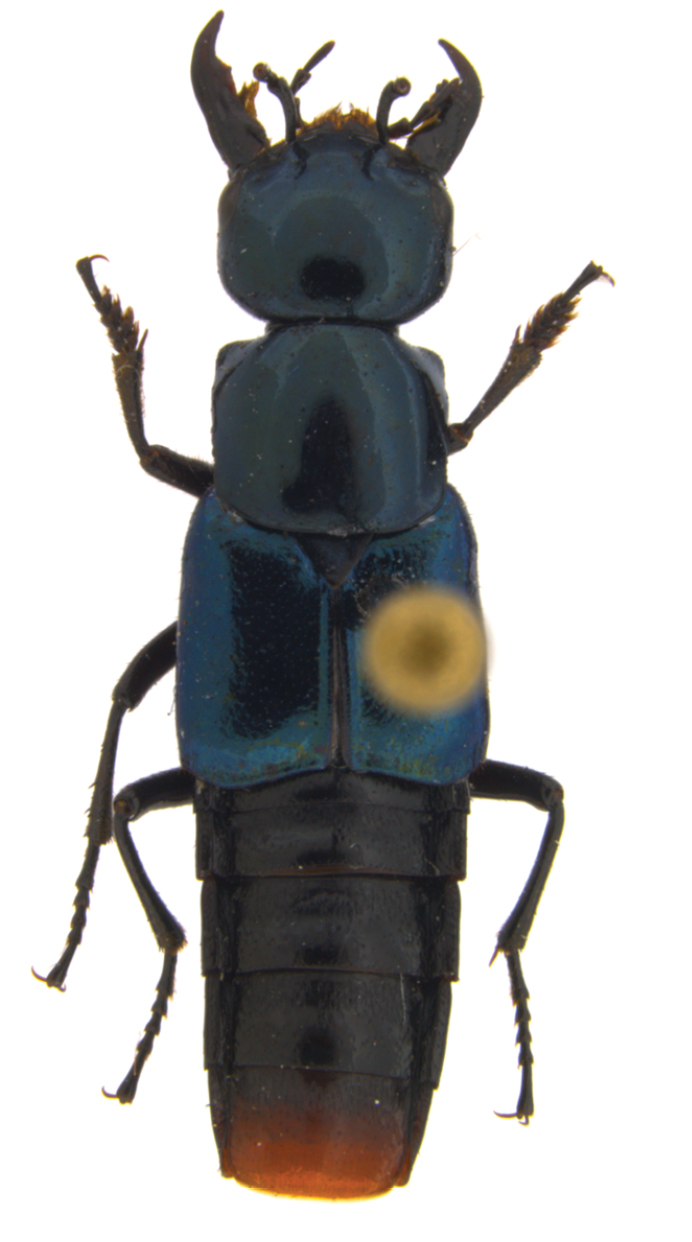 Peucoglyphus ken dorsal view